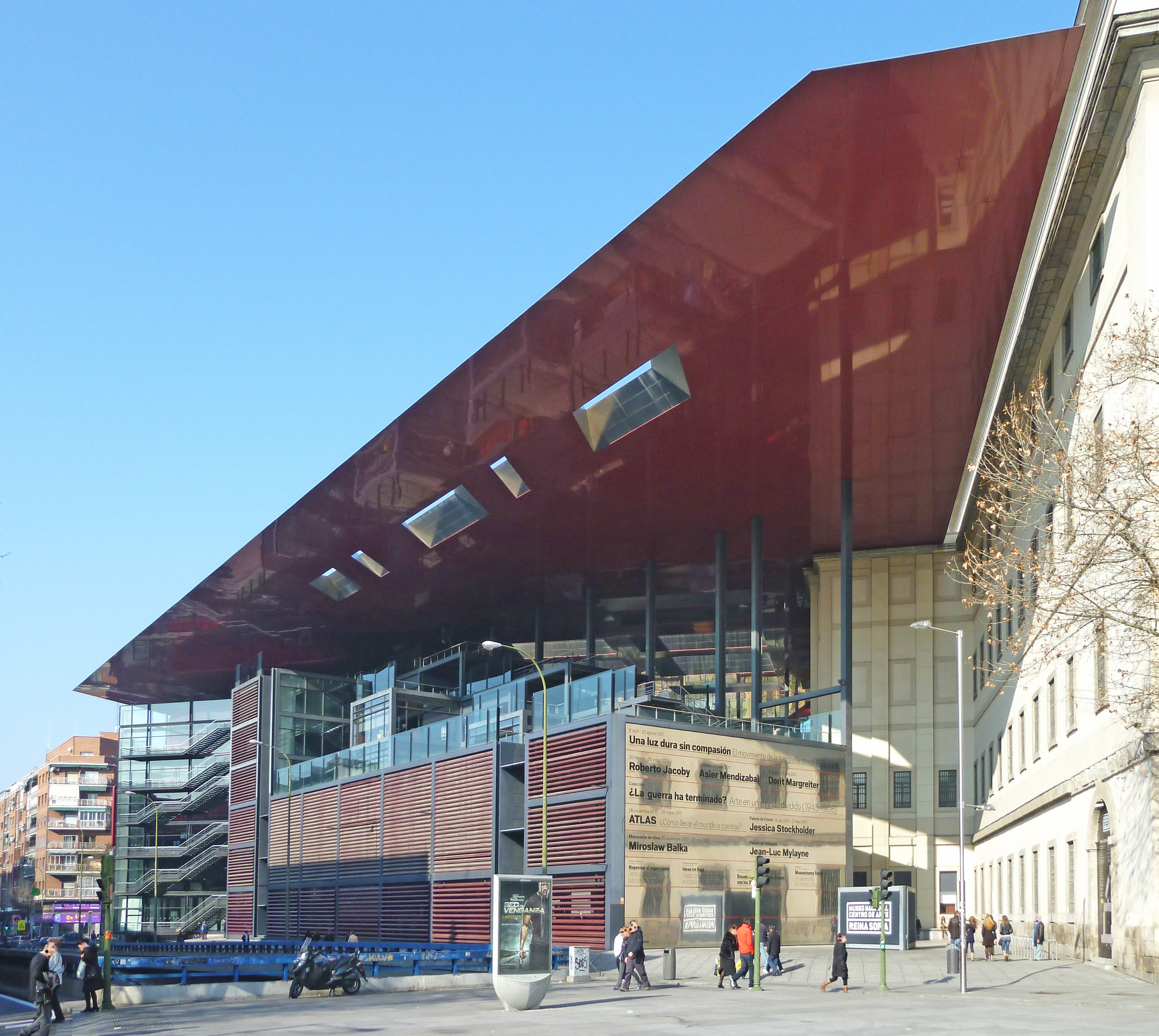 View of the extension of Queen Sofia Museum (MNCARS) in Madrid (Spain) from the south-east angle (Plaza del Emperador Carlos V, square).